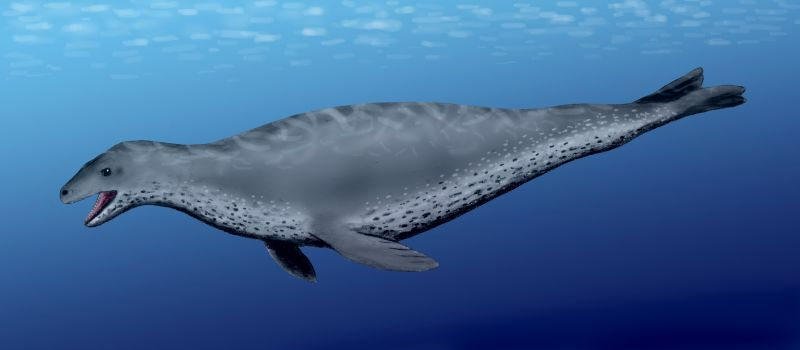 Acrophoca longirostris, a seal from the Late Pliocene of Peru, pencil drawing, digital coloring